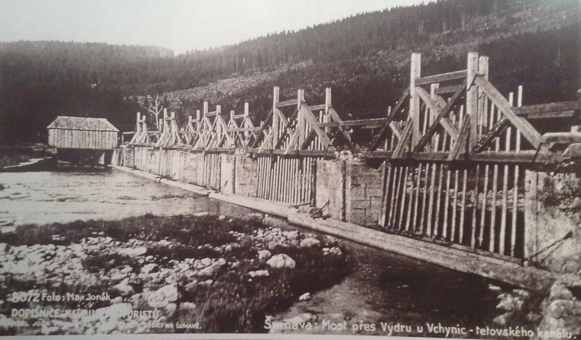 Hradlový most (Modrava)